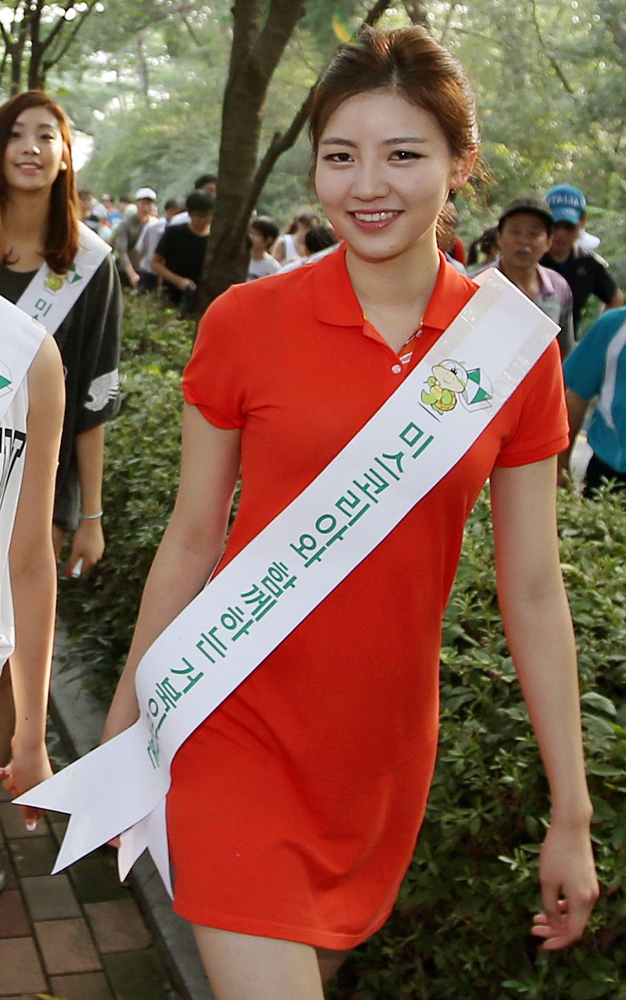 Namsan Trail Turtle Walk-A-Thon August 24, 2014 Namsan, Seoul Ministry of Culture, Sports and Tourism Korean Culture and Information Service ( Official Photographer: Jeon Han This official Republic of Korea photograph is CC-BY-SA-2.0-licensed, so while restrictions such as personality or privacy rights may apply, in general, manipulations are allowed. If you require a photograph without a watermark, please use Flickr e-mail.